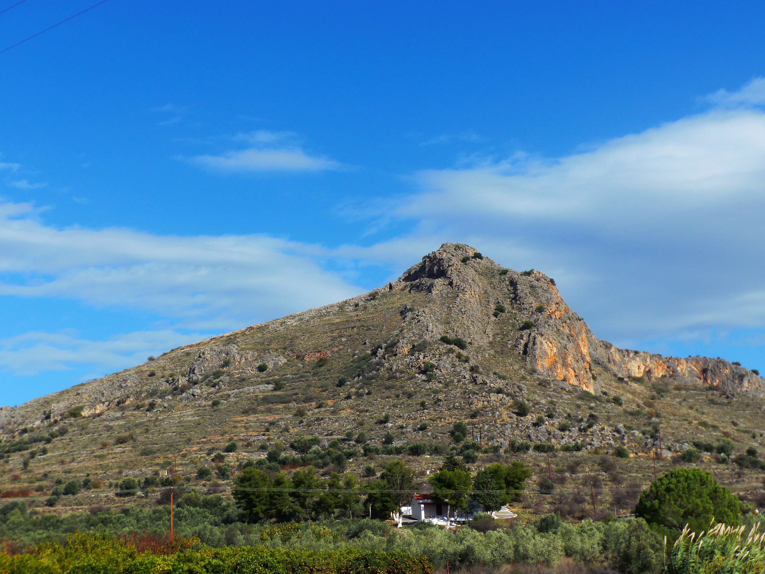 Hill of Midea, in Argolid, from south.